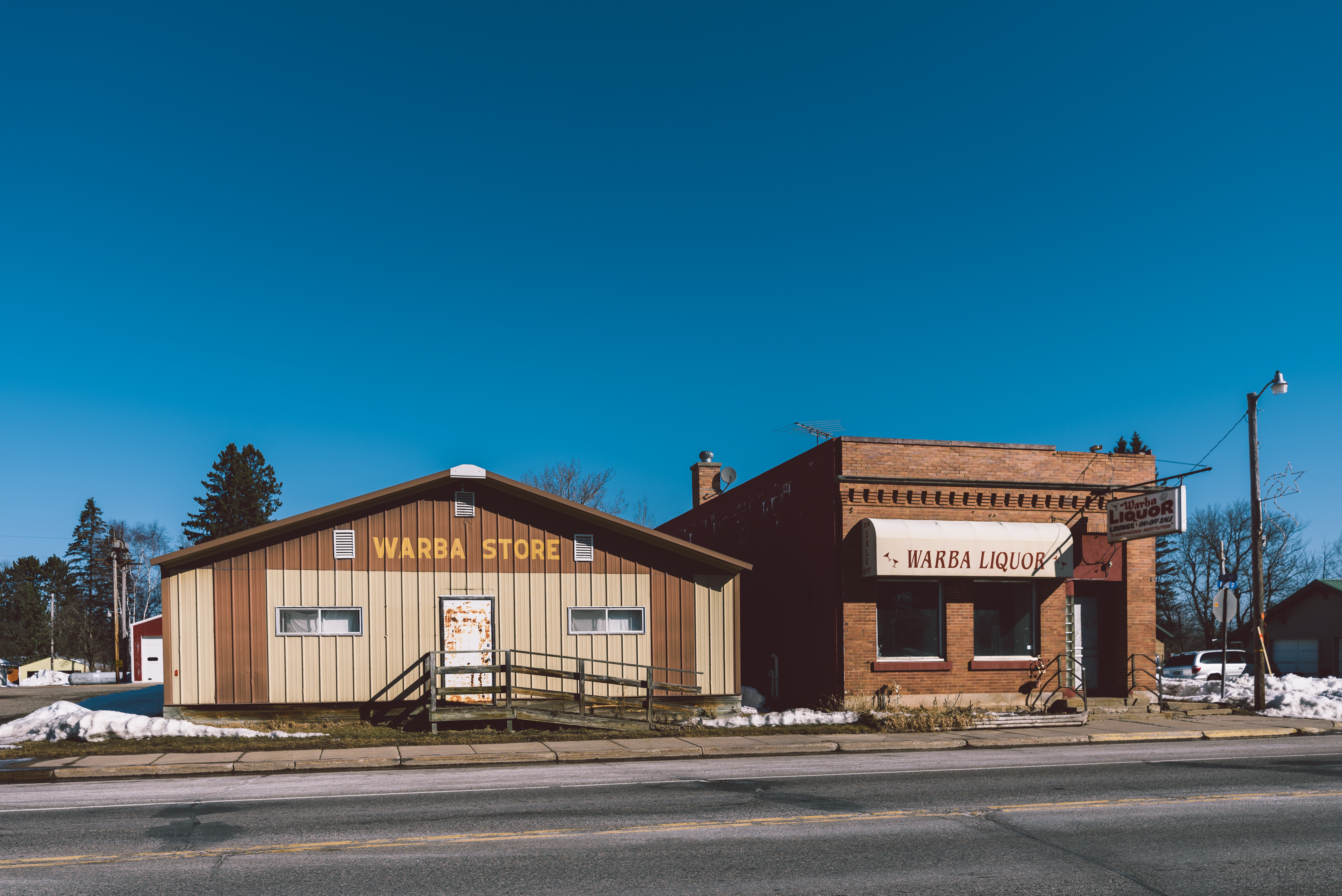 A store and liquor shop along U.S. Highway 2 (Bridge Street) in the small town of Warba, Minnesota. -- (C) 2018 Tony Webster +1 202-930-9200